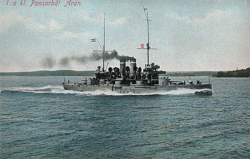 Picture of the Swedish battleship HMS Äran.